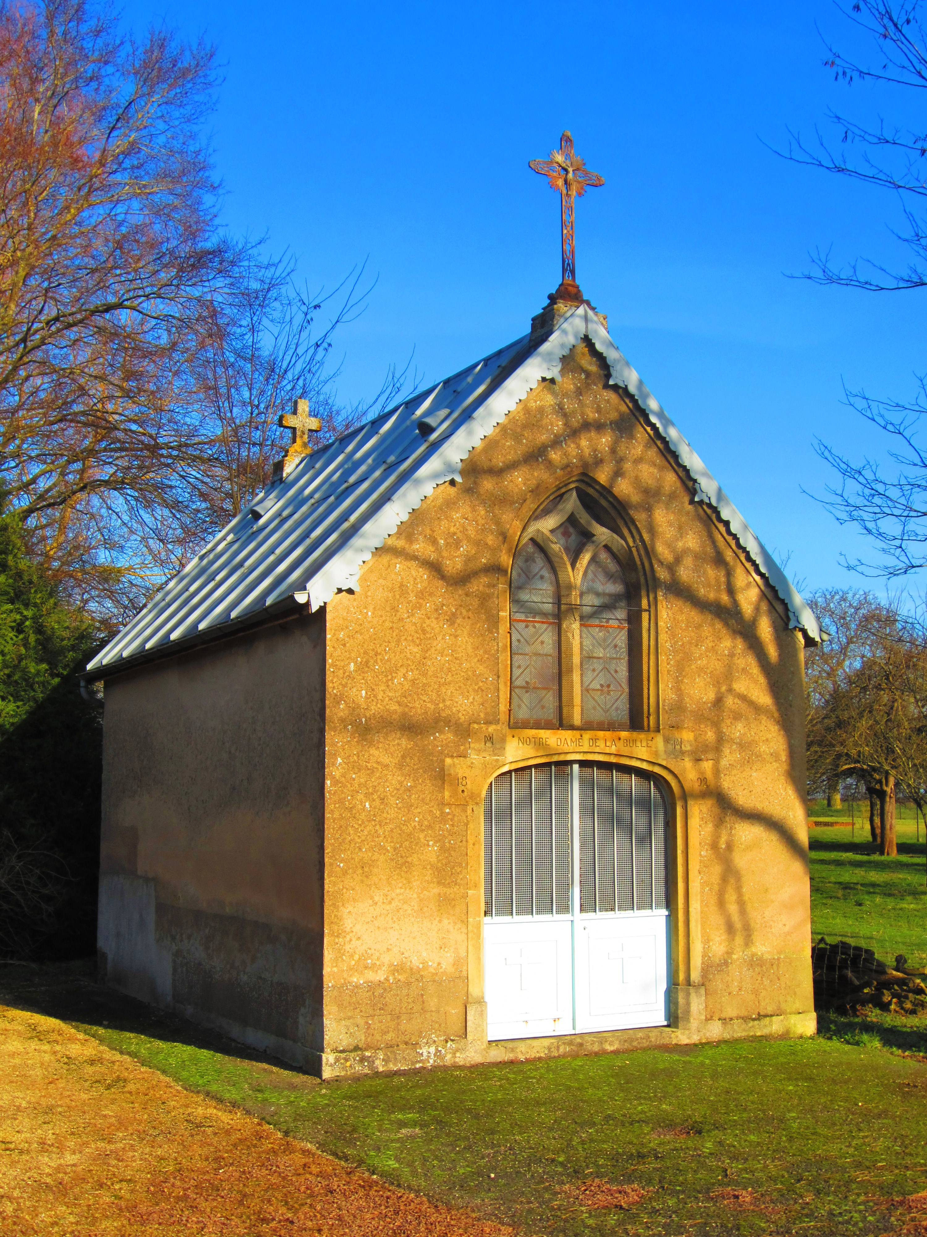 Buzy Darmont chapel